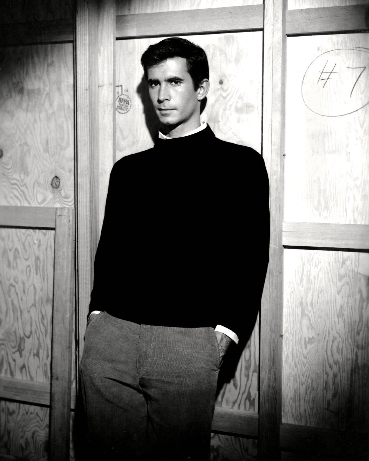 Publicity Photo of Anthony Perkins from the 1960 film Psycho